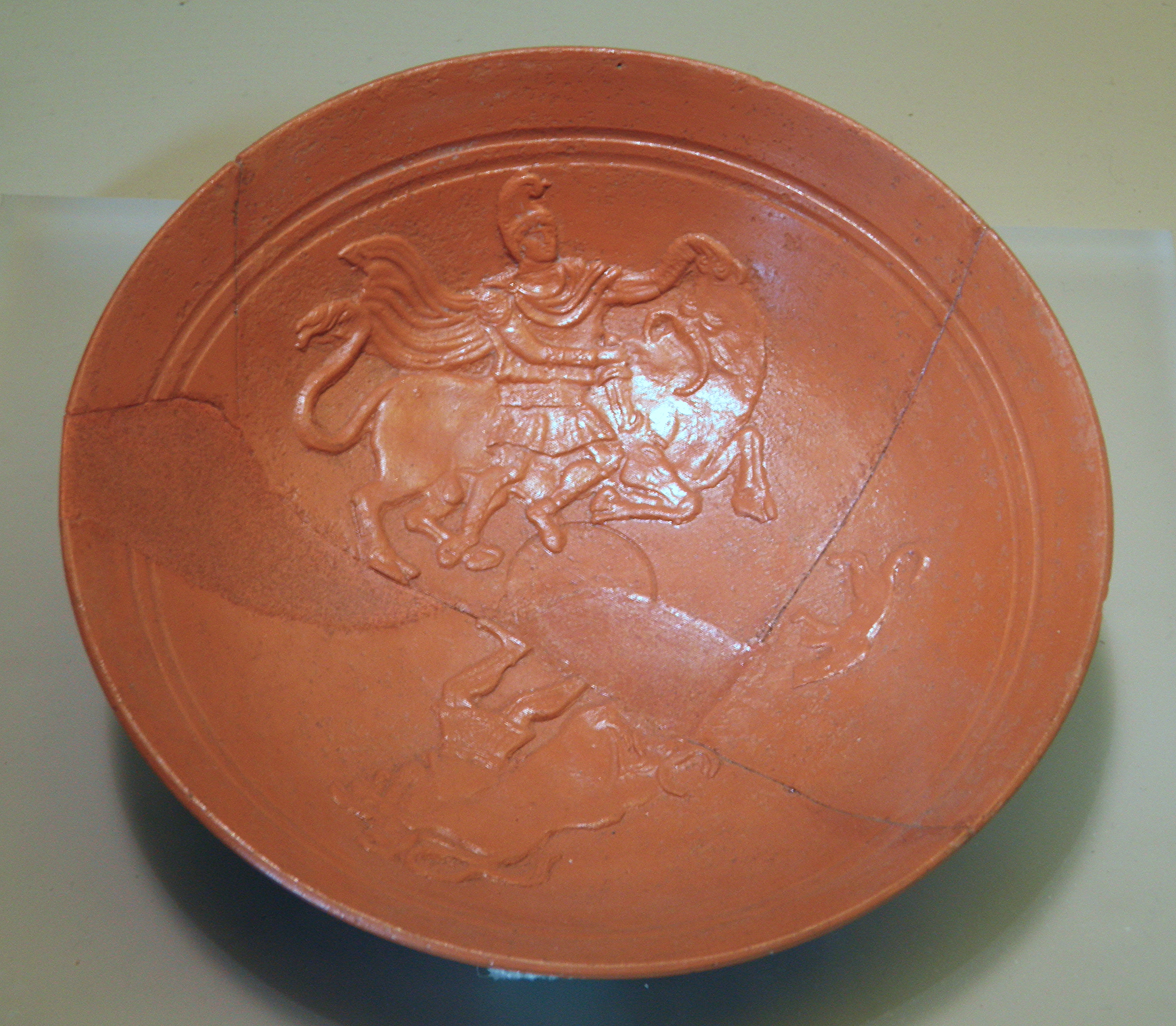 African cup in terra sigillata with moulded interior decoration showing Mithras slaying the bull, from Lavinium, second half of 4th century - first half of 5th century AD, Museo Nationale, Rome